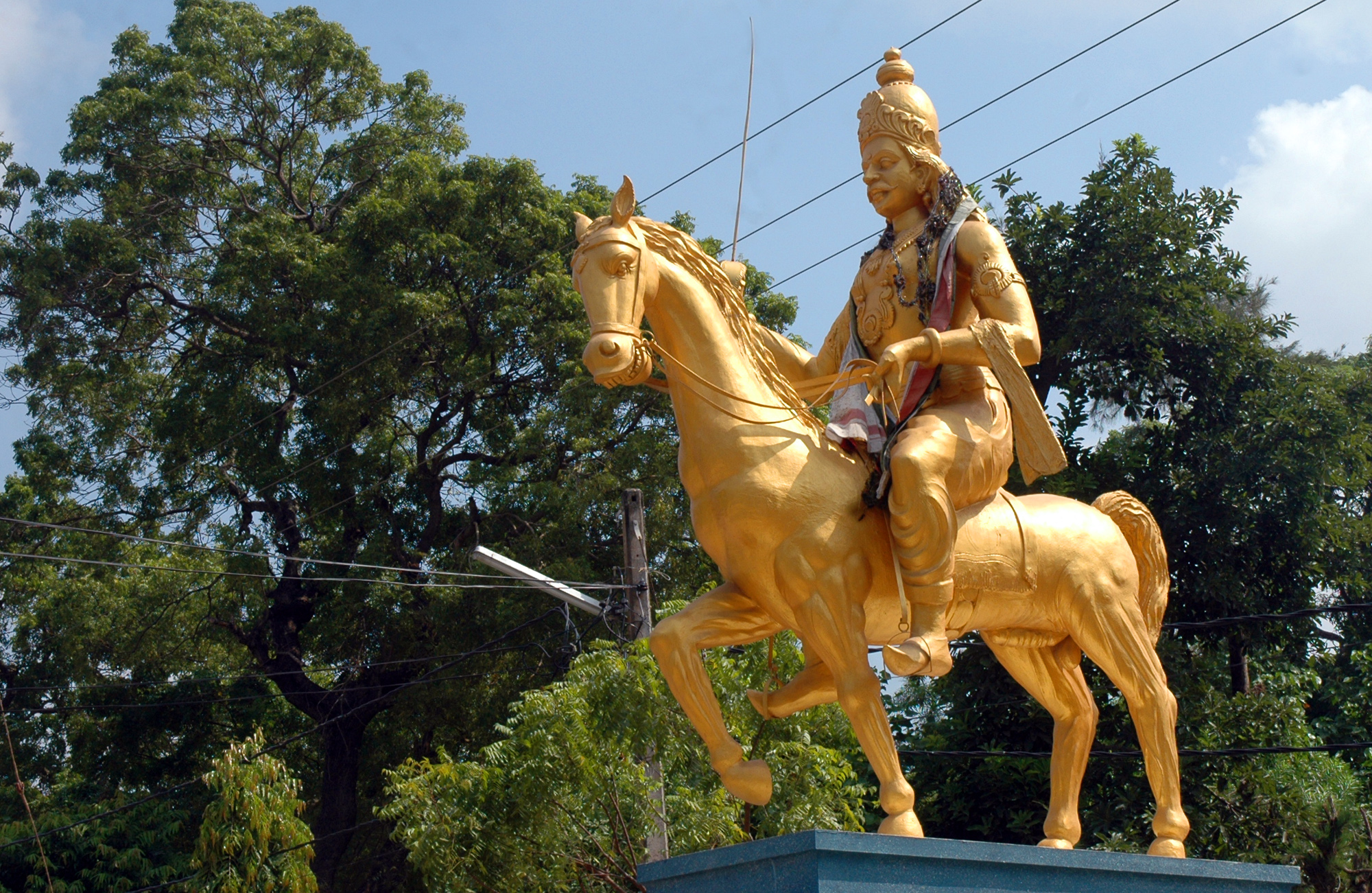 Statue of king Cankili II (Cekaracacekaran IX, 1617–1619) was the self-proclaimed last king of the Jaffna kingdom